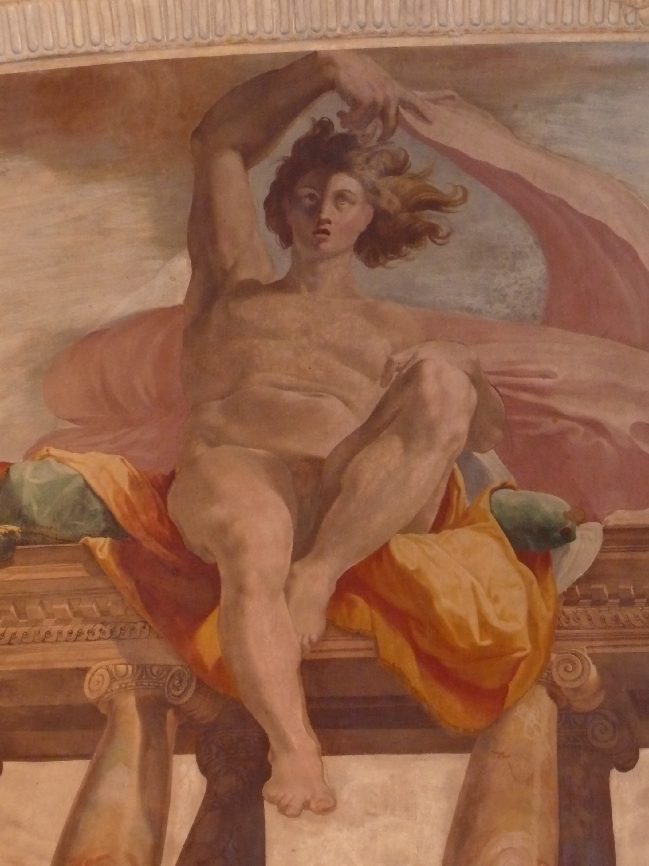 Ceiling frescos with Story of Ulysses by Pellegrino Tibaldi in Palazzo Poggi (Bologna)